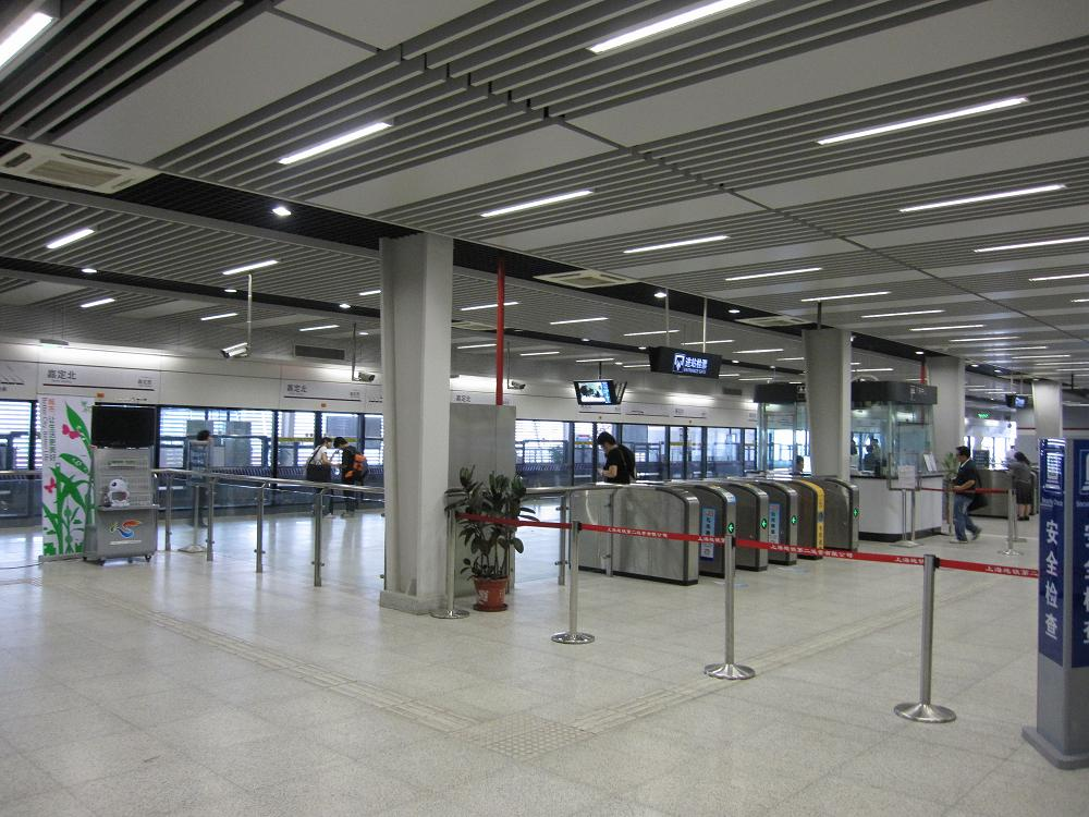 North Jiading Metro